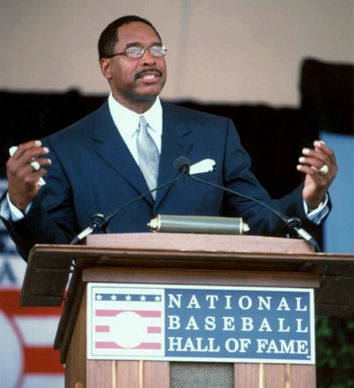 Dave Winfield's induction at Cooperstown, taken by Mario Casciano 2001.